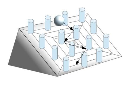 Analogía corriente con caída